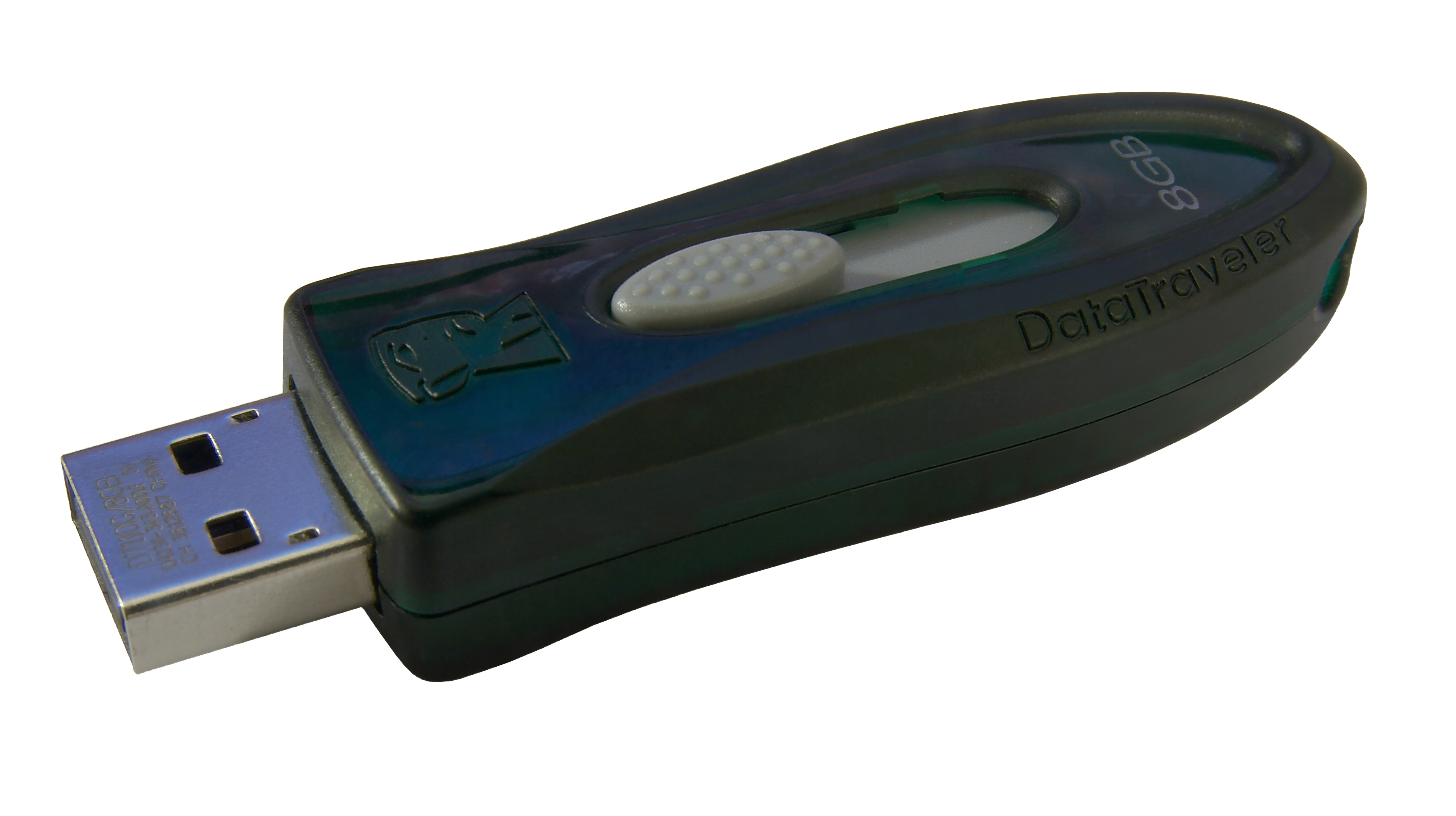 Kingston DataTraveler 110 8GB USB flash drive (P/N: DT110G/8GB).